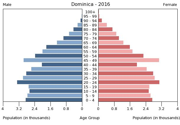 The population pyramid of Dominica illustrates the age and sex structure of population and may provide insights about political and social stability, as well as economic development. The population is distributed along the horizontal axis, with males shown on the left and females on the right. The male and female populations are broken down into 5-year age groups represented as horizontal bars along the vertical axis, with the youngest age groups at the bottom and the oldest at the top. The shape of the population pyramid gradually evolves over time based on fertility, mortality, and international migration trends.